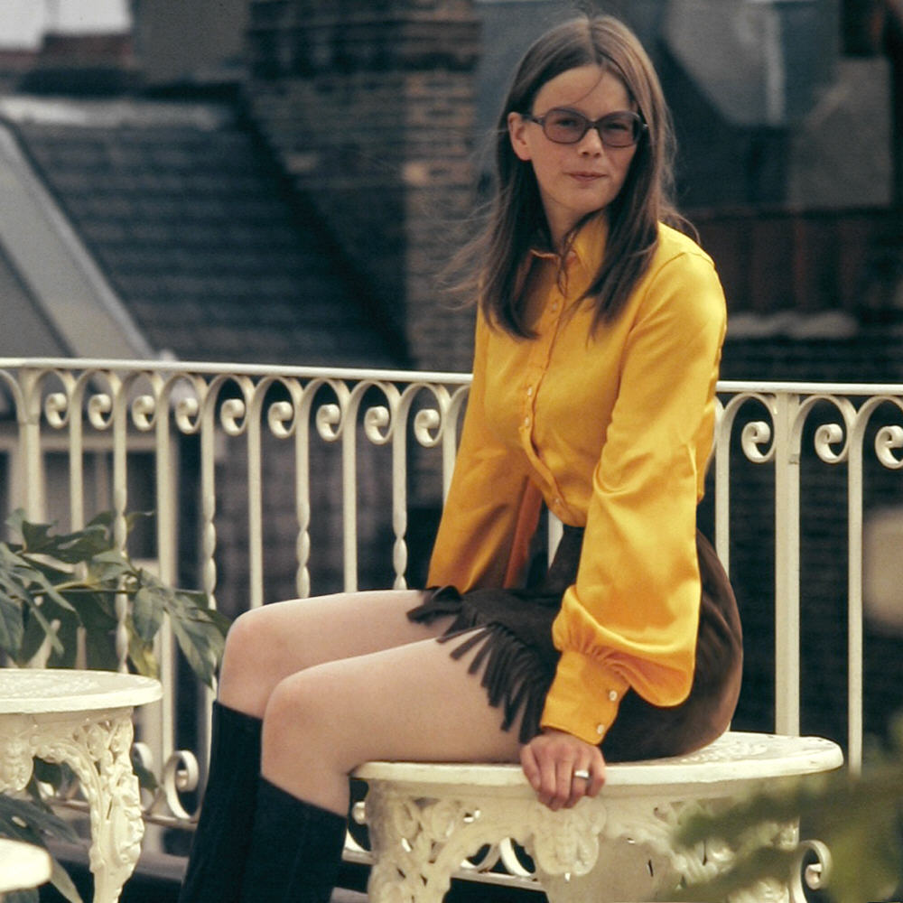 On a Kensington Hotel roof terrace.